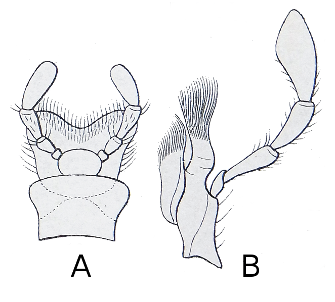 A Labium with palpes B mandibel with palps of Mycterus curculioides after E. Reitter 1911